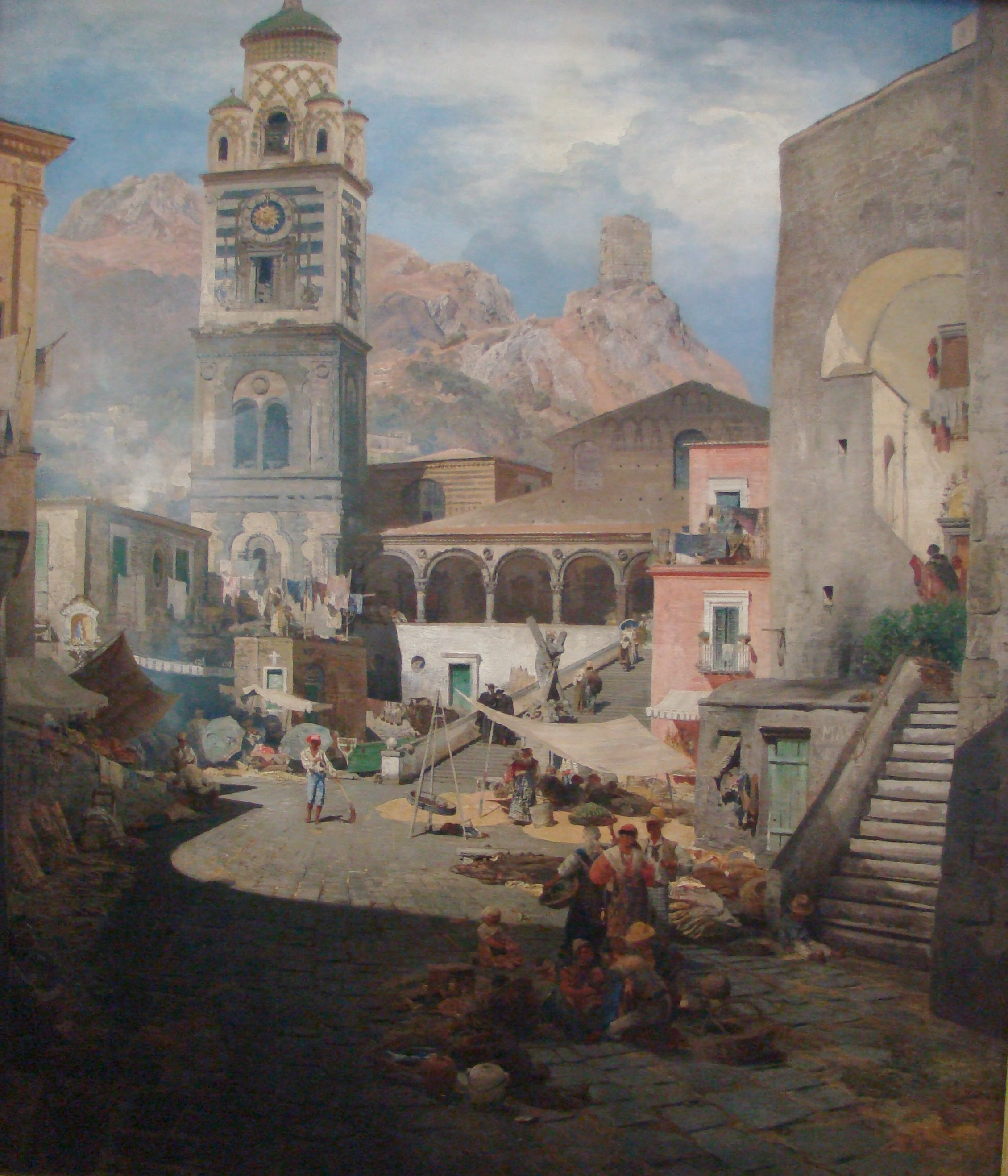 Market Place in Amalfi